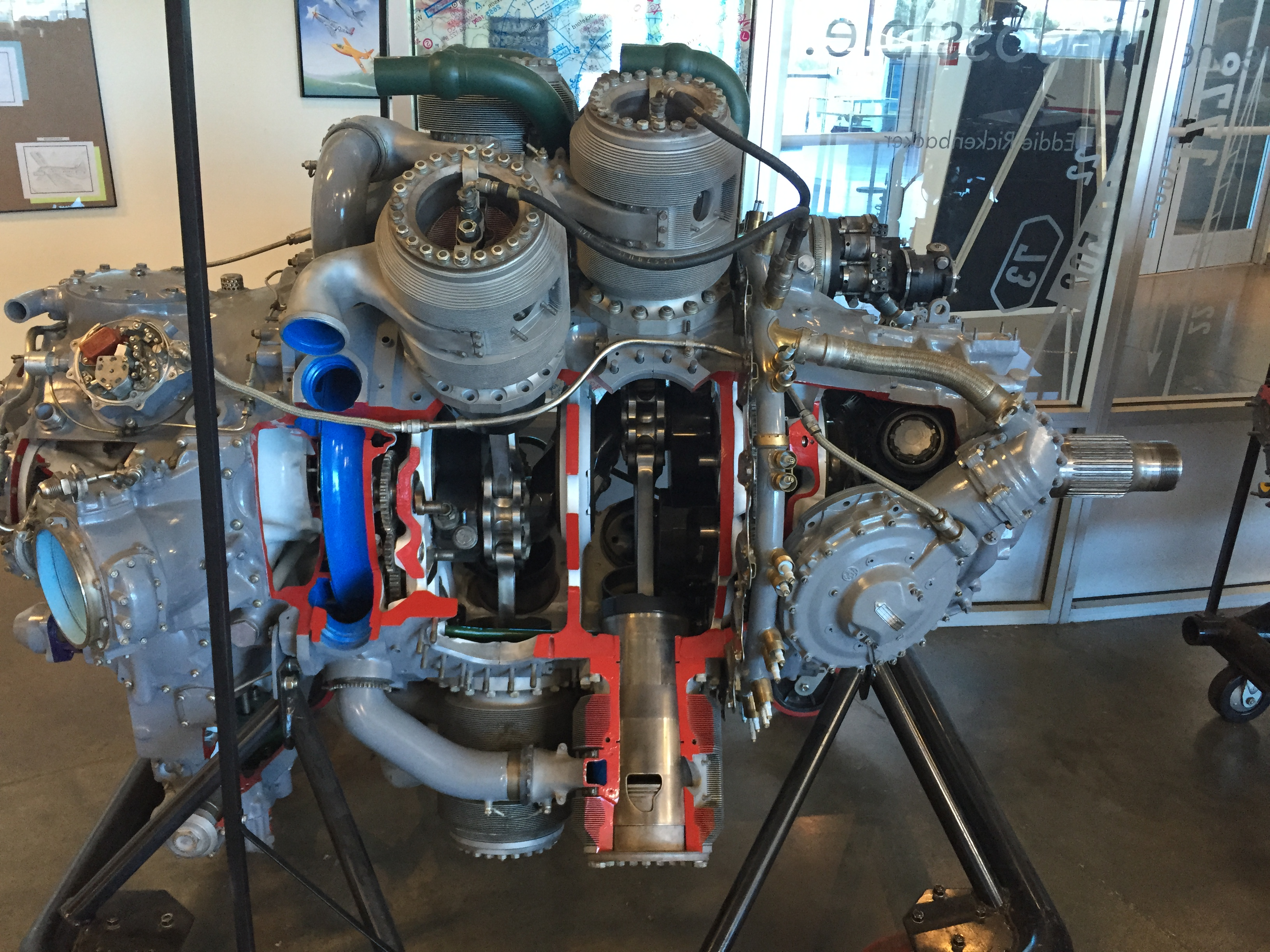 Cross Section of a Bristol Centaurus Mark 175